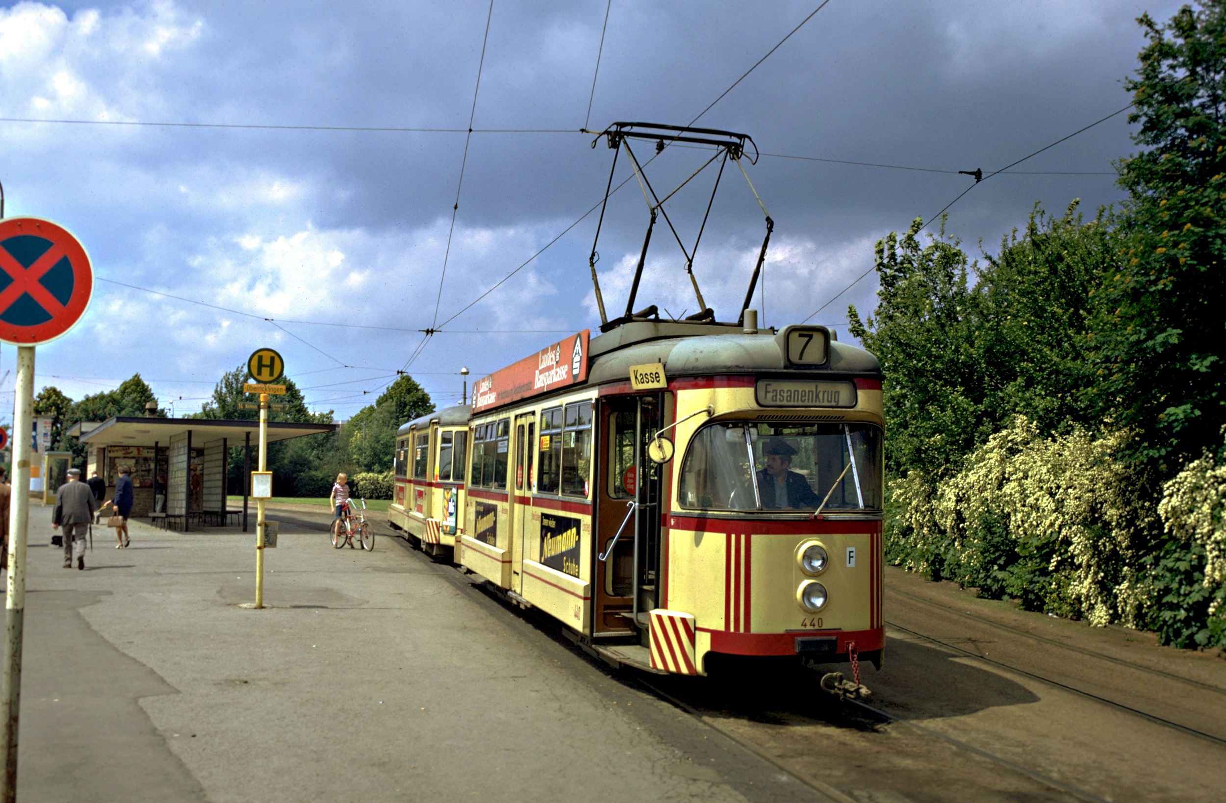 Tram in Hanover